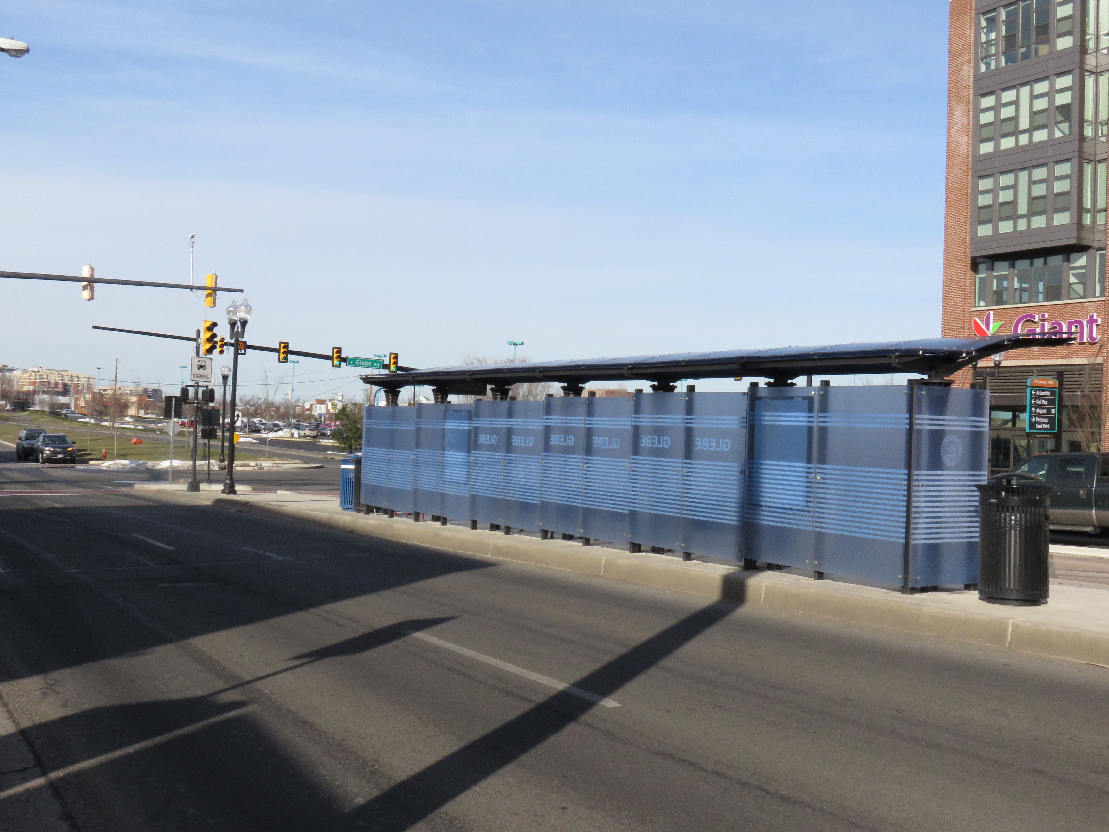 Southbound platform of East Glebe Metroway station in Potomac Yard, Alexandria, Virginia in February 2016